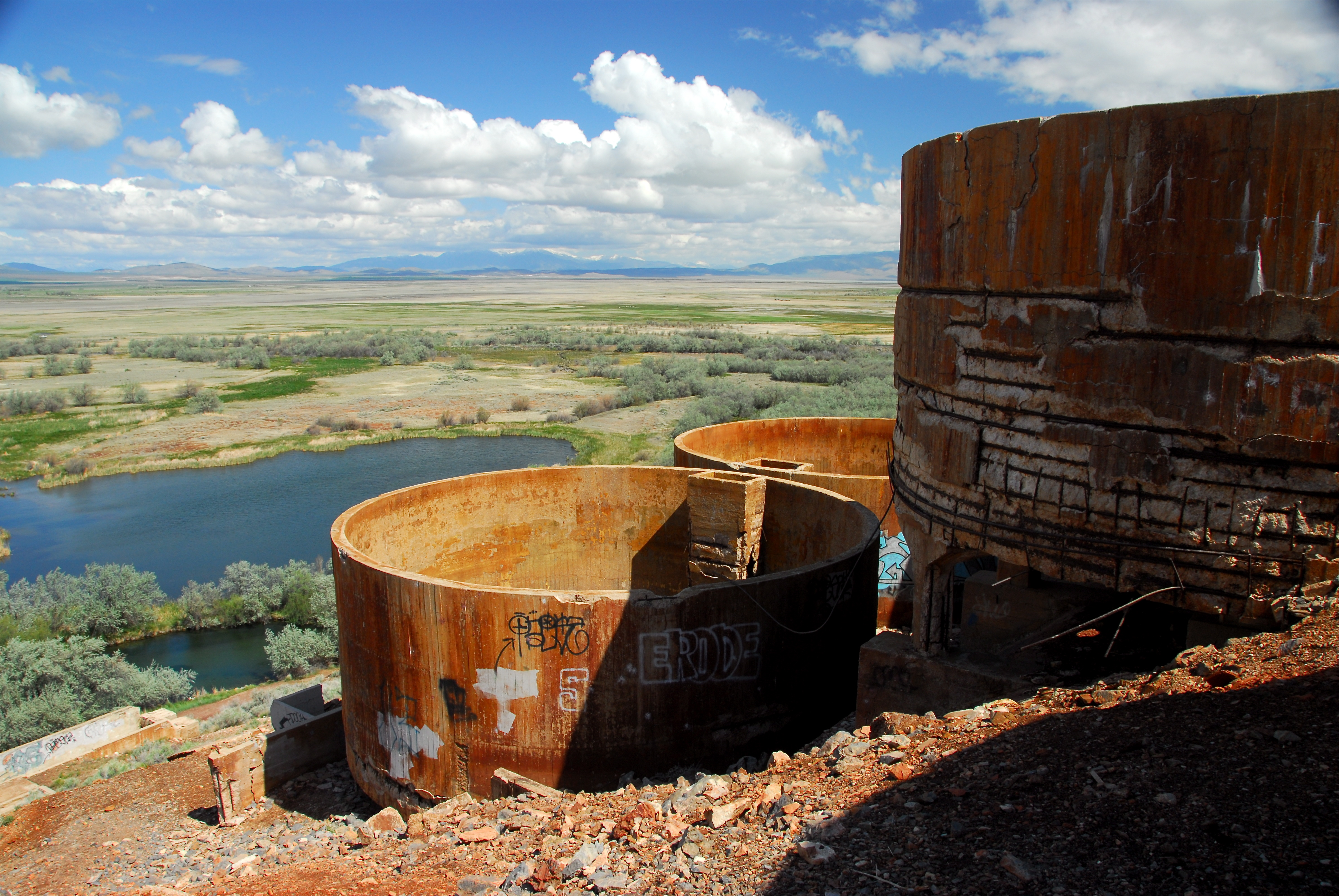 Photograph of the Tintic Standard Reduction Mill